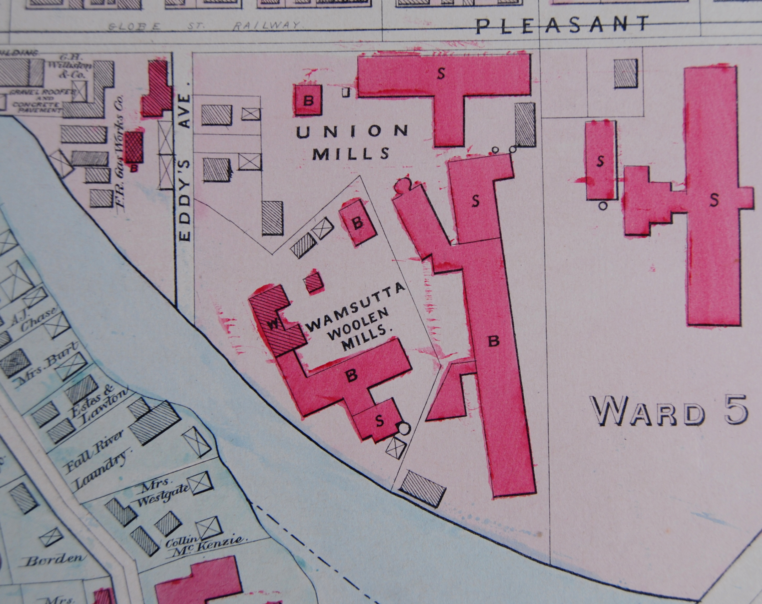 1883 map of Wamsutta Woolen Mill and Union Mills, Fall River, Massachusetts. Long building labeled "B" is Union Mill #3, demolished in 1960s for Interstate 195.